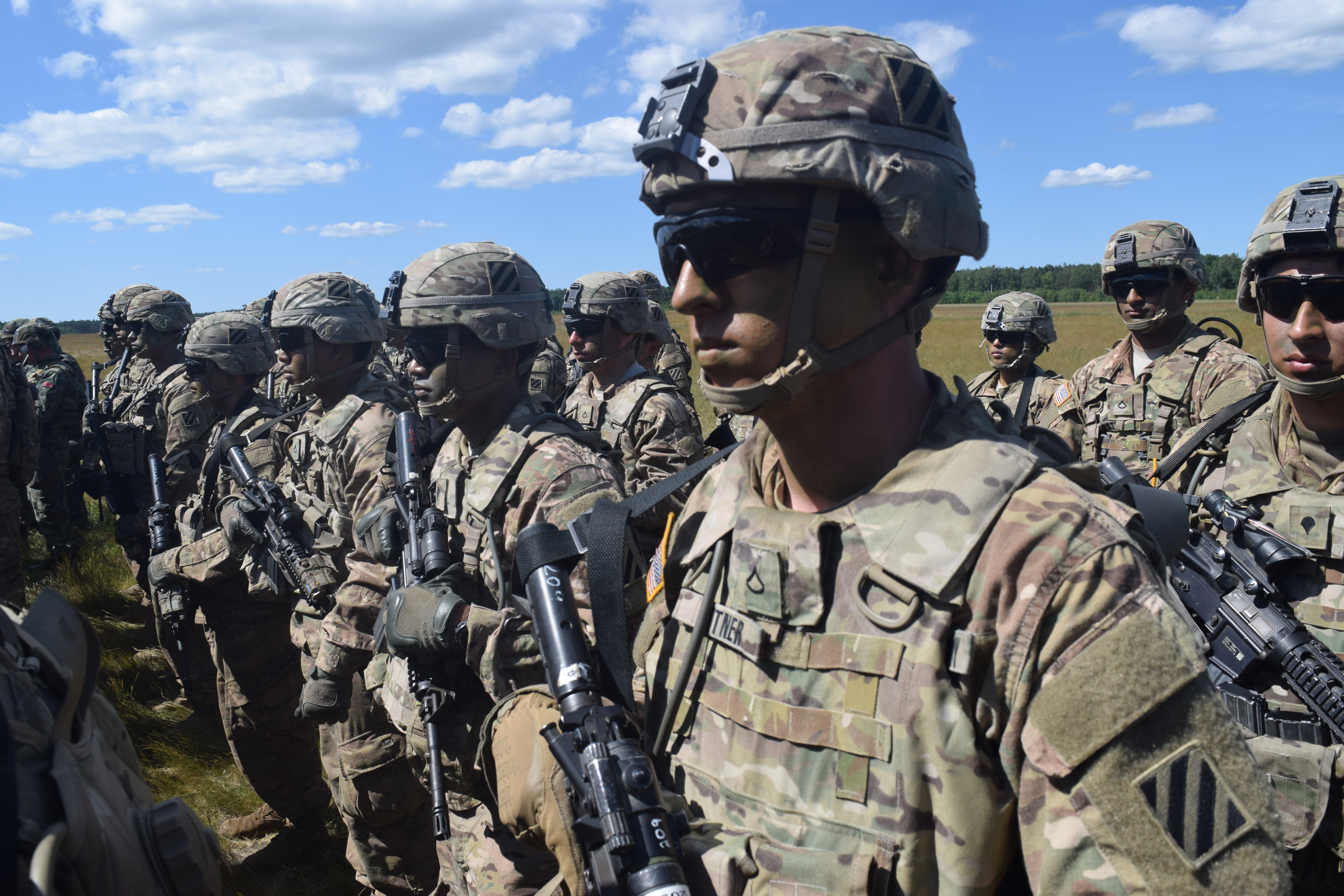 Soldiers from 1st Armored Brigade Combat Team, 3rd Infantry Division stand in formation during the opening ceremonies for Exercise Anakonda 16 at Drawsko Pomorskie Training Area, Poland June 6. Anakonda 16 is a Polish-led exercise taking place throughout Poland from June 7-17. It involves over 25,000 participants from more than 20 nations. Anakonda 16 is a premier event for U.S. Army Europe, allied and partnered nations that supports assurance and deterrence measures by demonstrating Allied defense capabilities to deploy, mass and sustain combat power Unit: 1st Armor Brigade Combat Team, 3rd Infantry Division